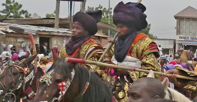 This pictures are taken during Eid-el Fitr celebrations locally known as Hawan Sallah or Hawan daushe (meaning Sallah riding) in Bauchi, Bauchi state. The horse riders dress and adorned in traditional (mostly Hausa warriors) regalia. This celebration can sometimes happens for marriage ceremonies and welcoming expatriate guest to the state. Note: Hausa is a tribe/language in most part of northern Nigeria This is an image of Cultural Fashion or Adornment from Nigeria